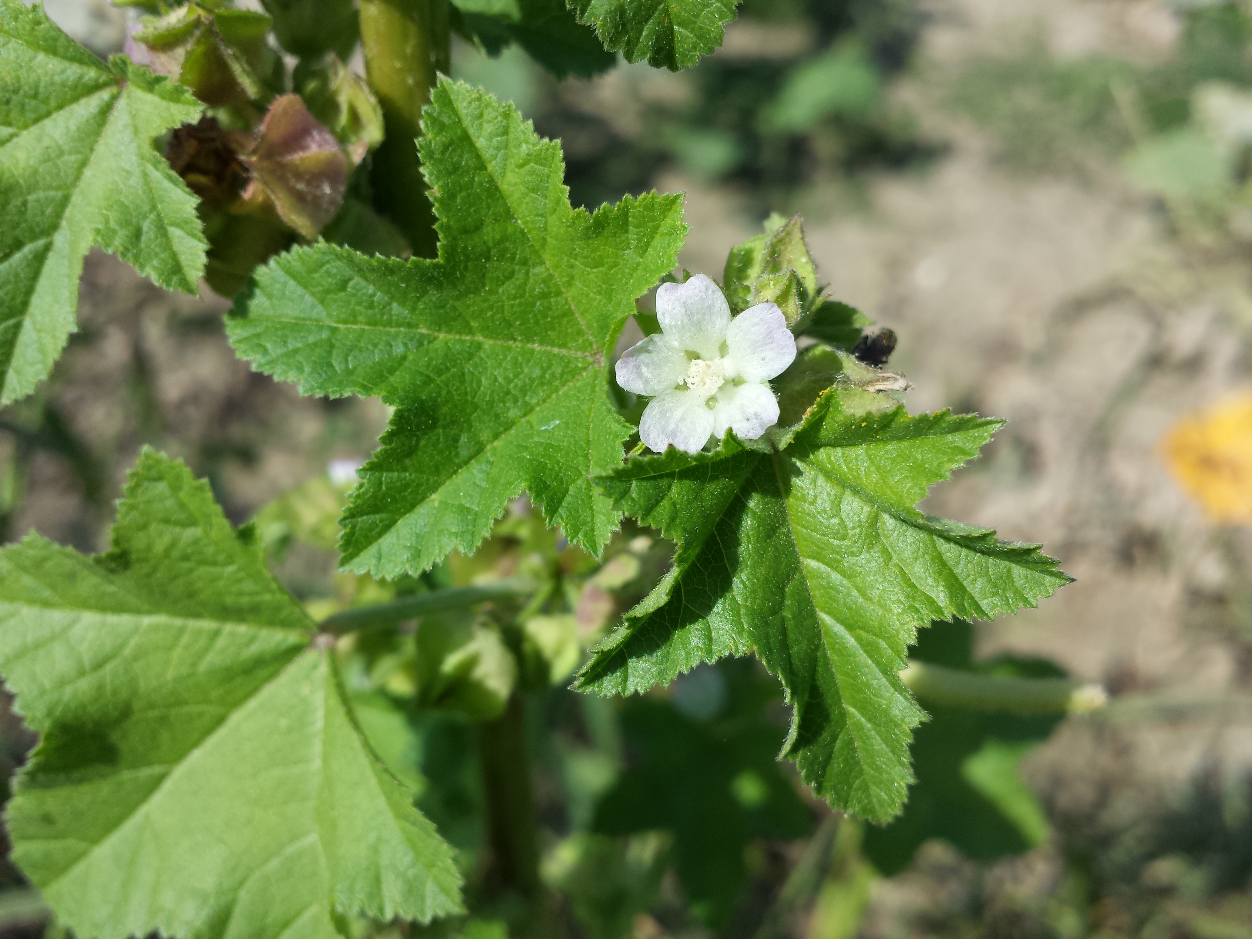 Inflorescence Taxonym: Malva verticillata ss Fischer et al. EfÖLS 2008 ISBN 978-3-85474-187-9 Location: near Steinberg near Niederhollabrunn, district Korneuburg, Lower Austria - ca. 300 m a.s.l. Habitat: field of pumpkins